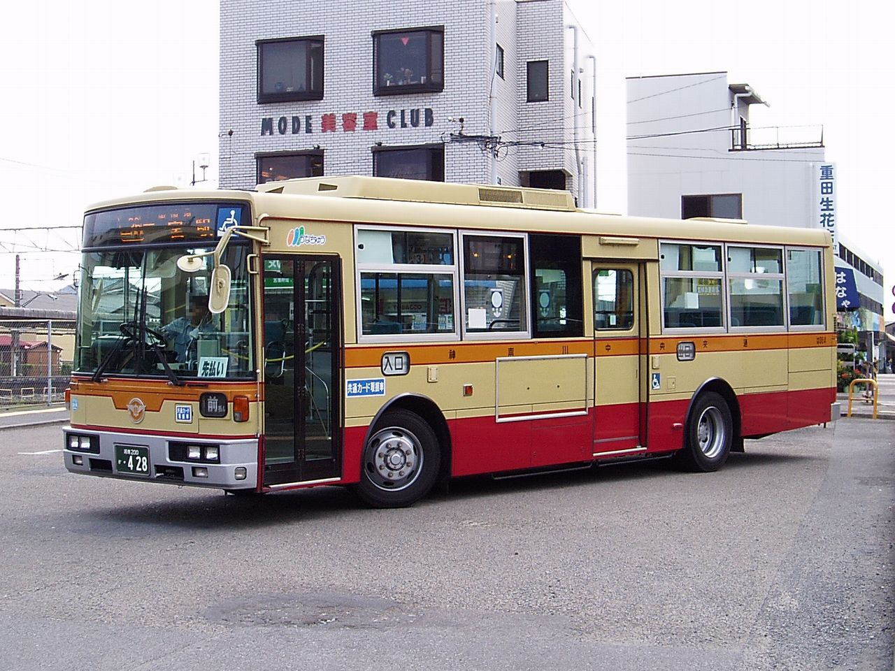 Kanagawa Chuo Kotsu Ha064 Nissan Diesel KL-UA452MAN at Ninomiya Sta.